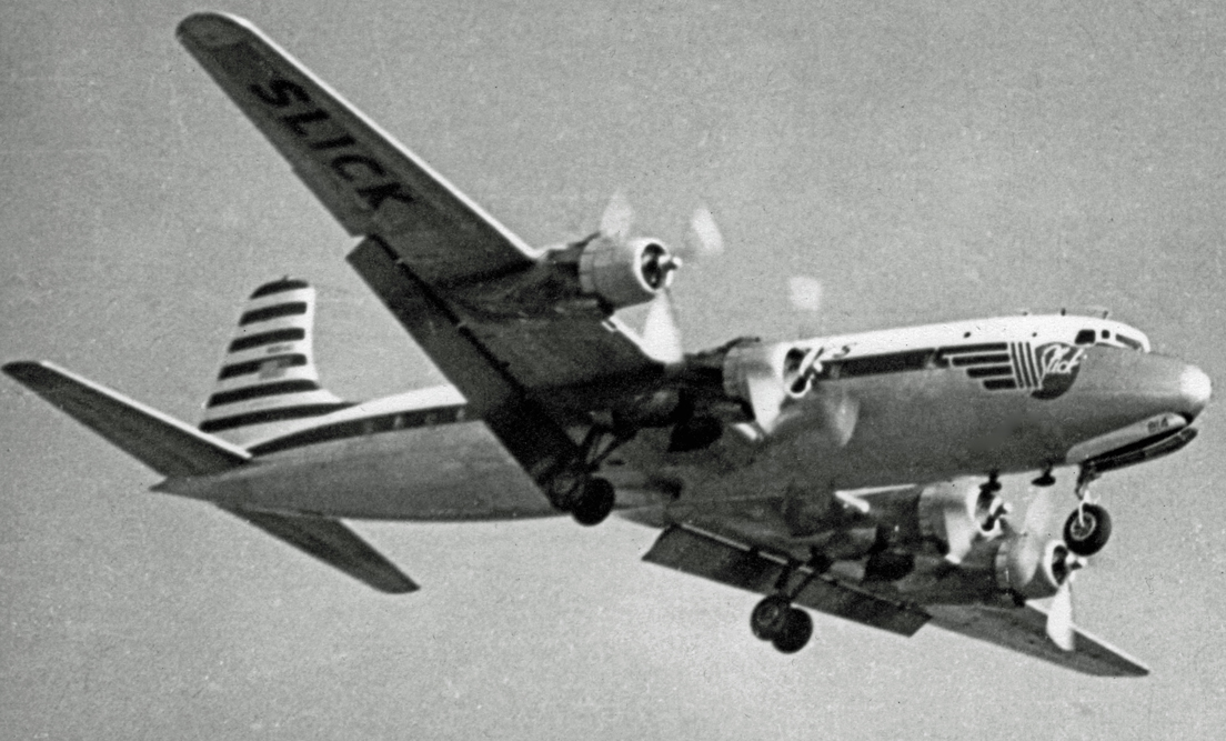 Douglas DC-6A N6814C of Slick Airways landing at RAF Burtonwood in 1956